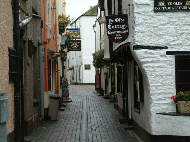 Narrow Street, Looe Tourists conspicuous by their absence. It pays to visit out of season!